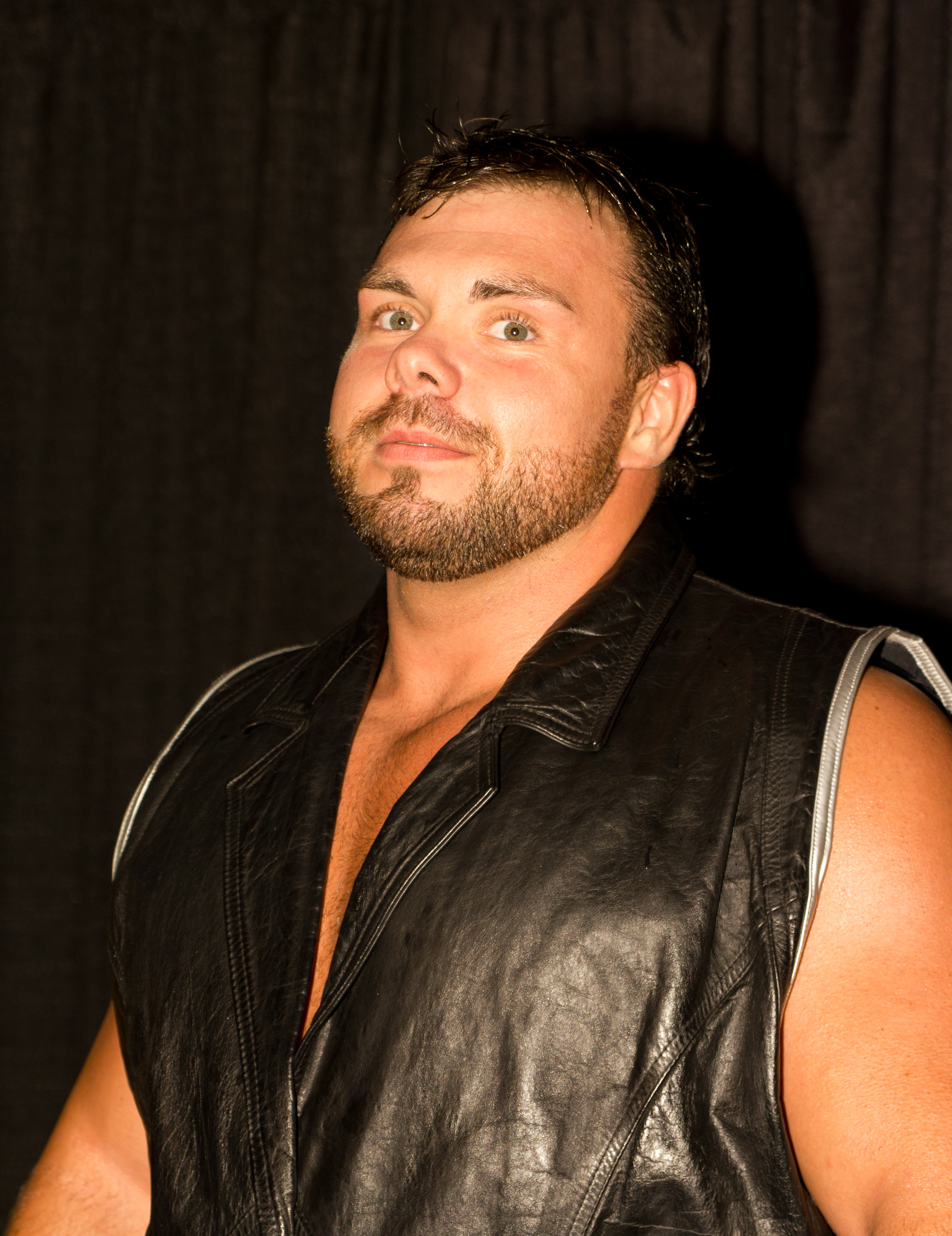 Michael Elgin at a Squared Circle Wrestling event in Vaughan, ON